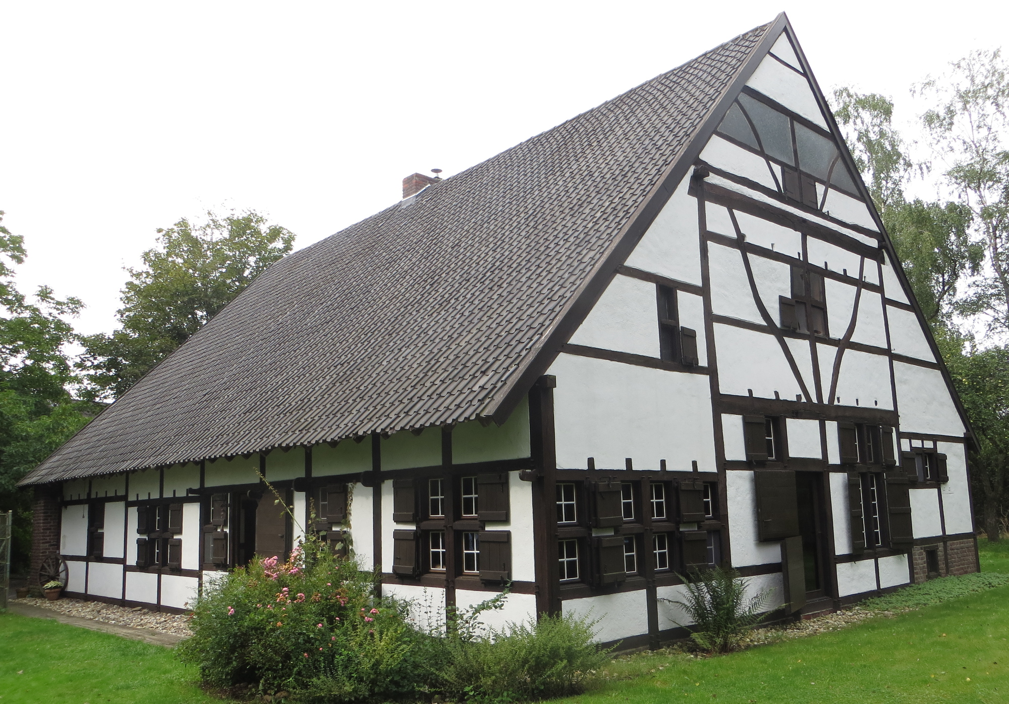 Heimershof from East